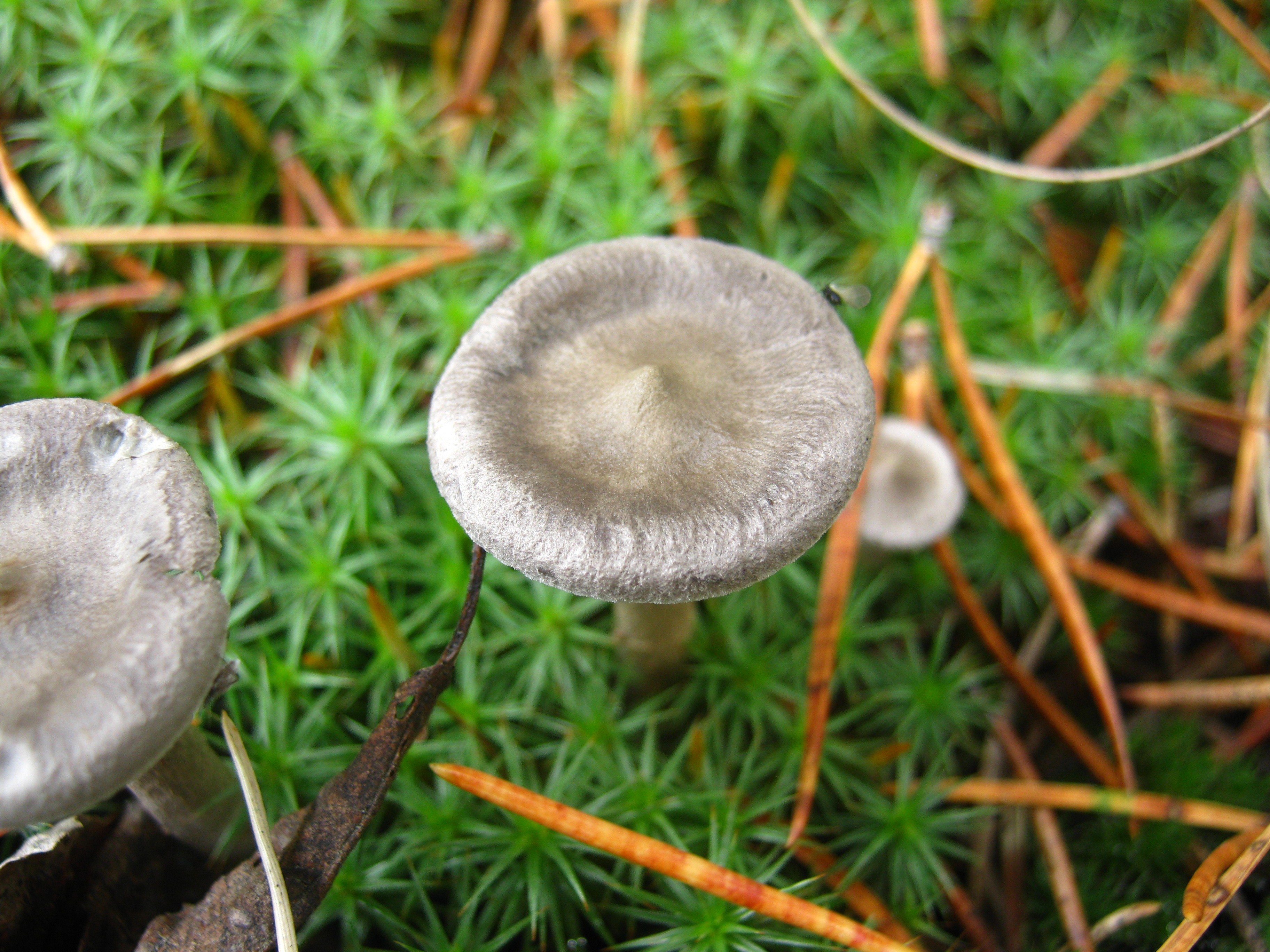 Cantharellula umbonata (Fr.) Singer Location: Forest near Elgin Street, Pembroke, Ontario, Canada Observation Notes: Found in Zone 15; first time I’ve seen these there this year. For more information about this, see the observation page at Mushroom Observer.